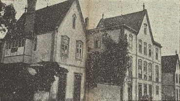 Mirandela Railway Station, in the Tua Railway, in Portugal. This photograph was originally published in the Gazeta dos Caminhos de Ferro No. 1178, of the 16th January 1937, and scanned by the Hemeroteca Municipal de Lisboa.